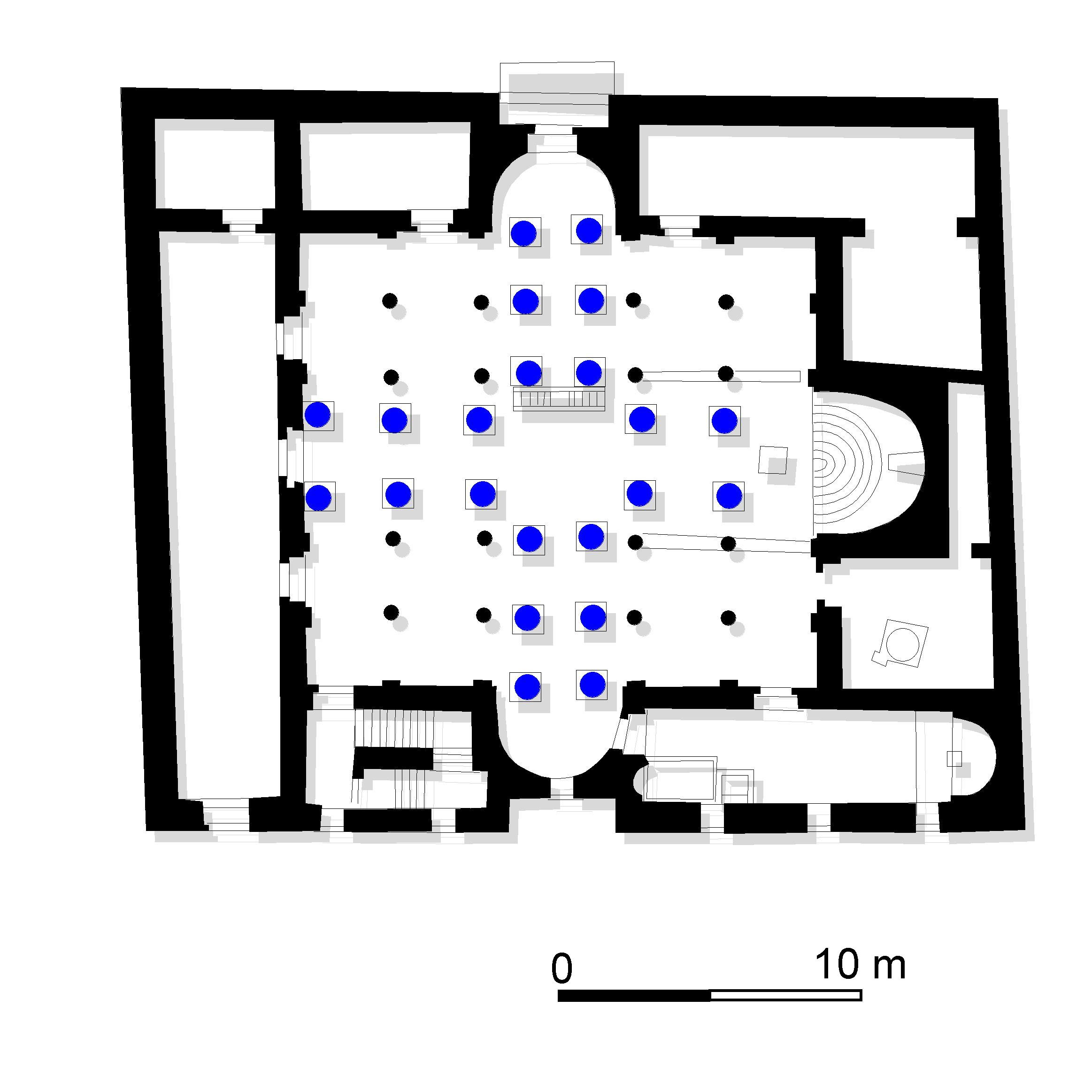 Church with the Brick Columns in Old Dongola